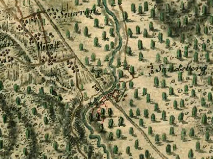 Detail from map over the area around the border between Sweden and Norway 1772, showing defences around Morast bridge, Värmland, Sweden.